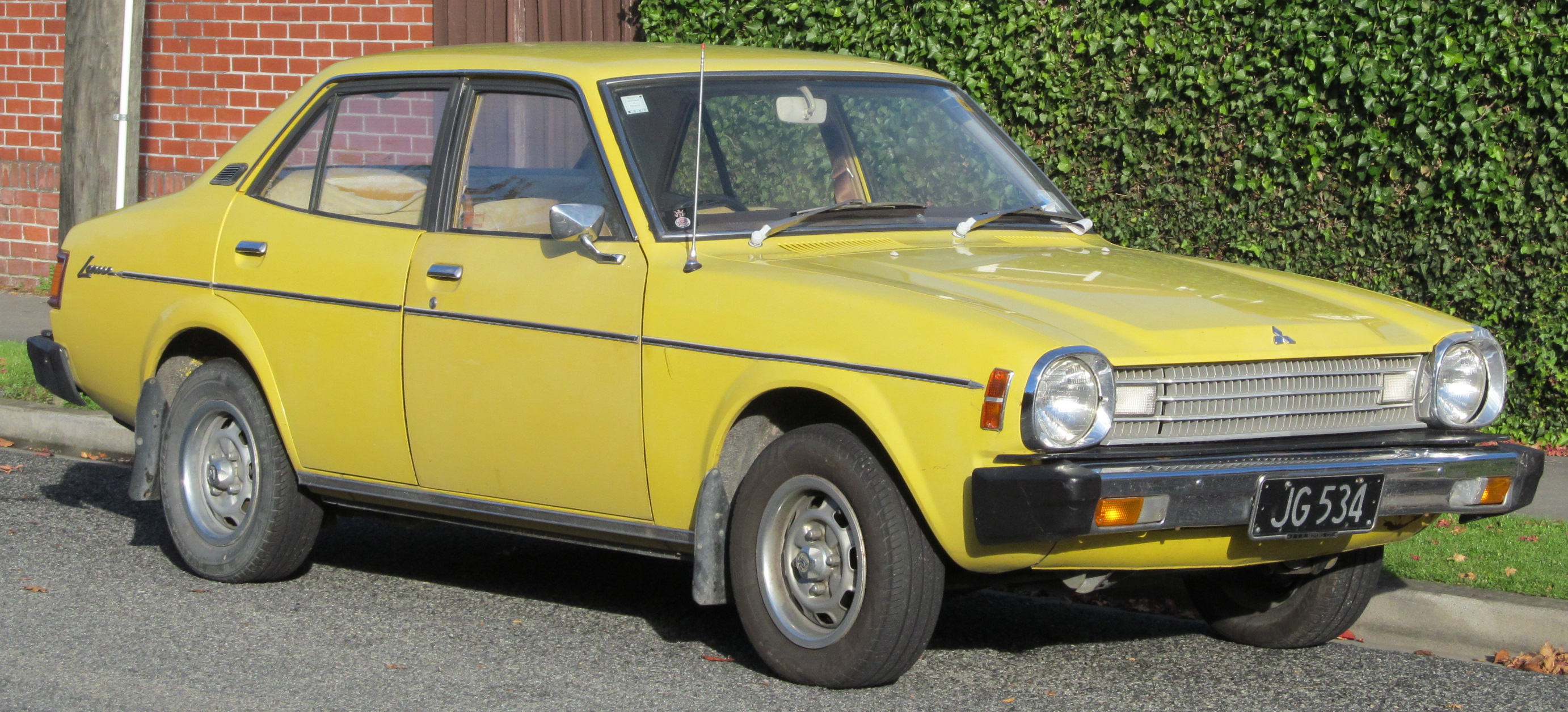 A nice tidy example of the A70 Lancer, although the door is clearly a replacement, and is just far enough from the correct colour to be annoying! This one is from the last year of production, so it may have been discounted to make way for the new EX.